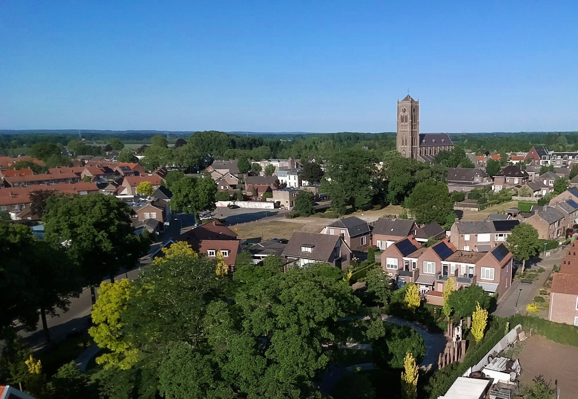 Aerial view of the Dutch town Mill.